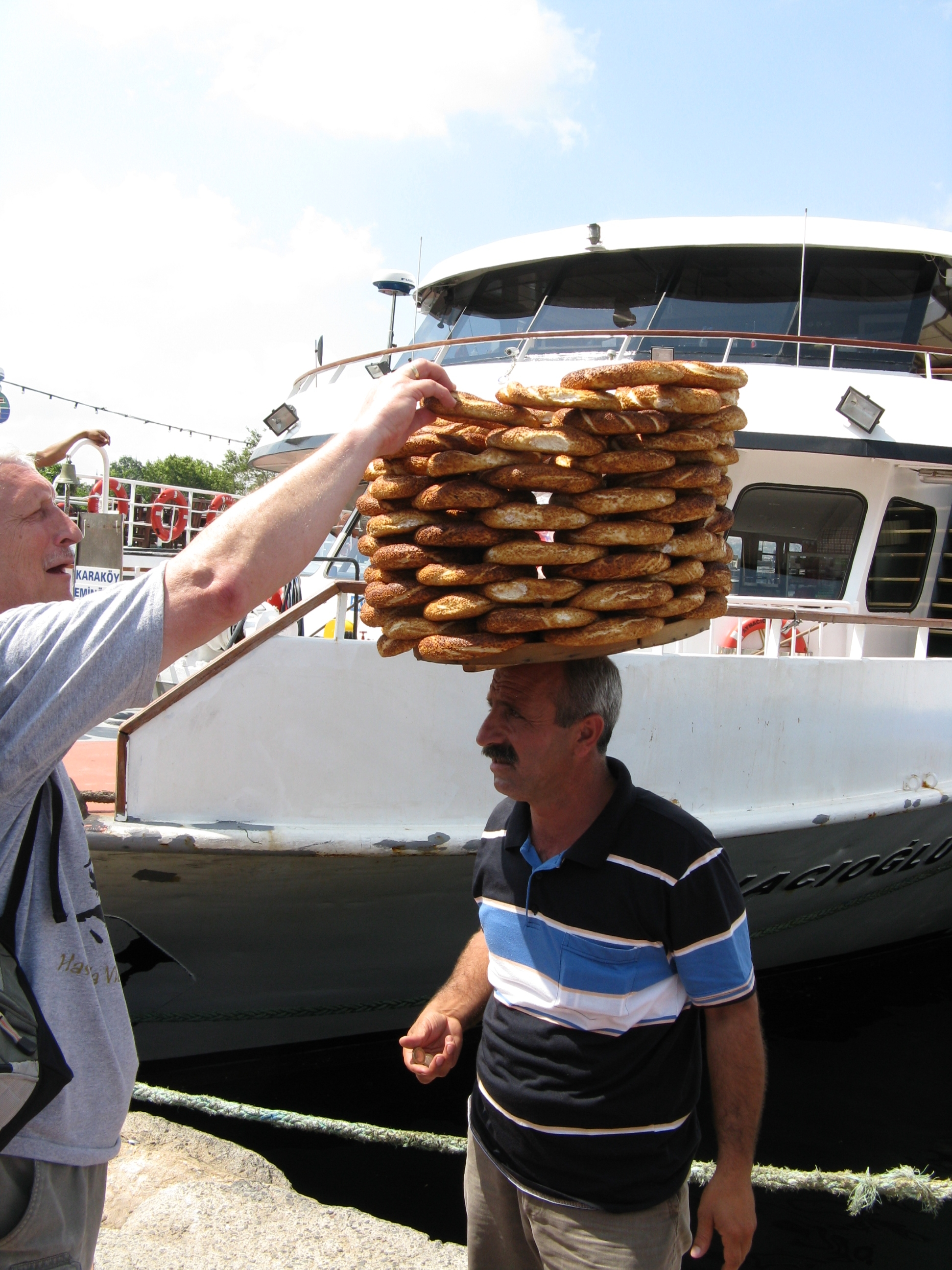 Turkish bagels ("simit") seller, Istanbul